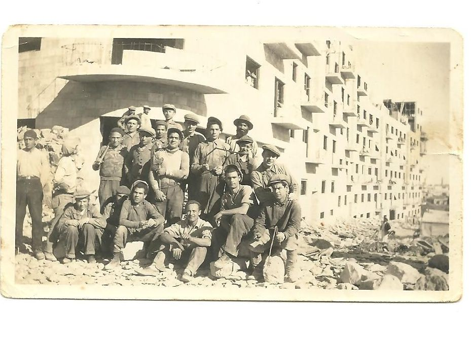 פועלי בית המעלות עם השלמתו בשנת 1935